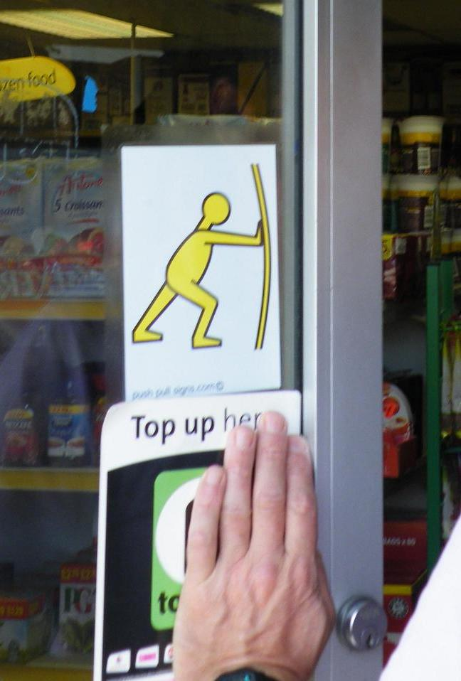 Photo of a Push Symbol / Picture. Taken by Alastair Cook, .